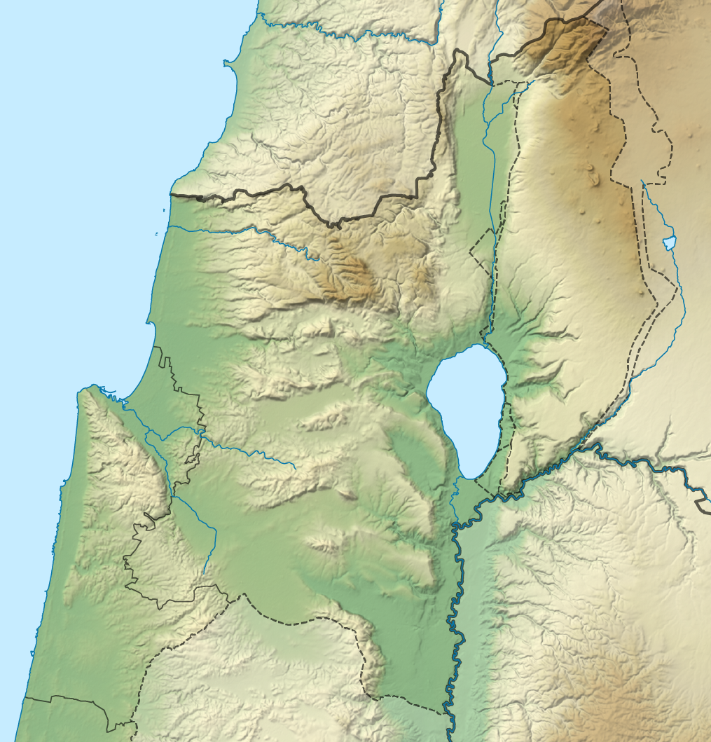 Location map of the north of Israel: Northern District and Haifa District; relief version Equirectangular projection. Geographic limits of the map: N: 33.3579972° N S: 32.3508222° N W: 34.8288611° E E: 35.9786527° E